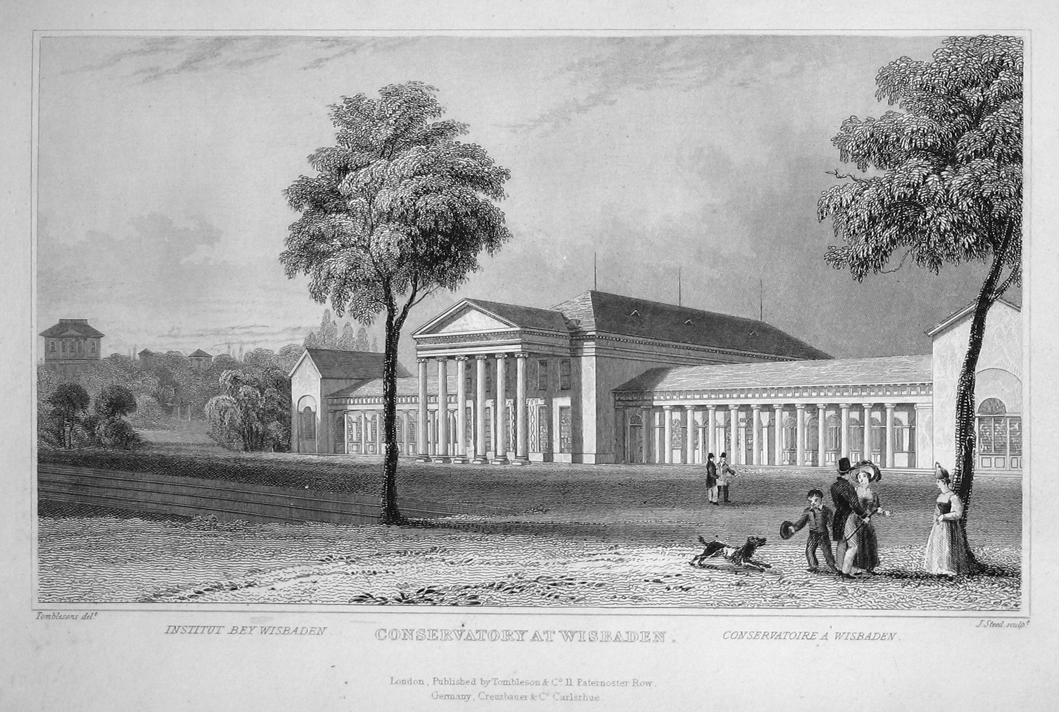 Steel engraving from "Views of the Rhine" by William Tombleson (around 1840): Town of Wiesbaden, Old Kurhaus